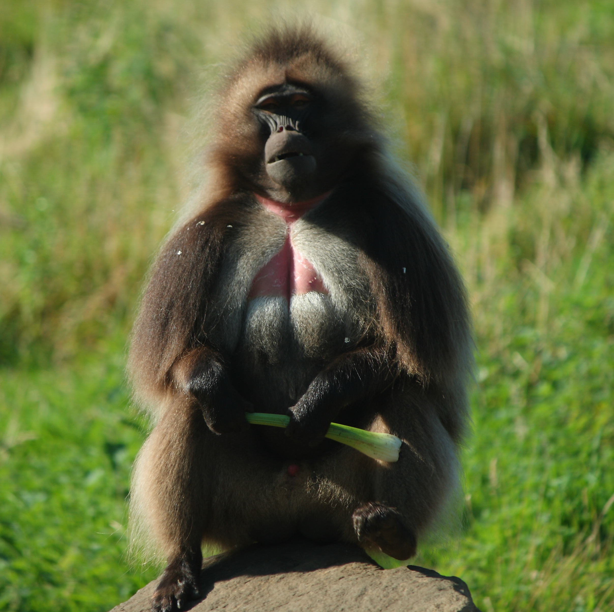 Male gelada with a celery